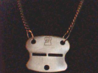 A picture of a Finnish soldier's "dog-tag."